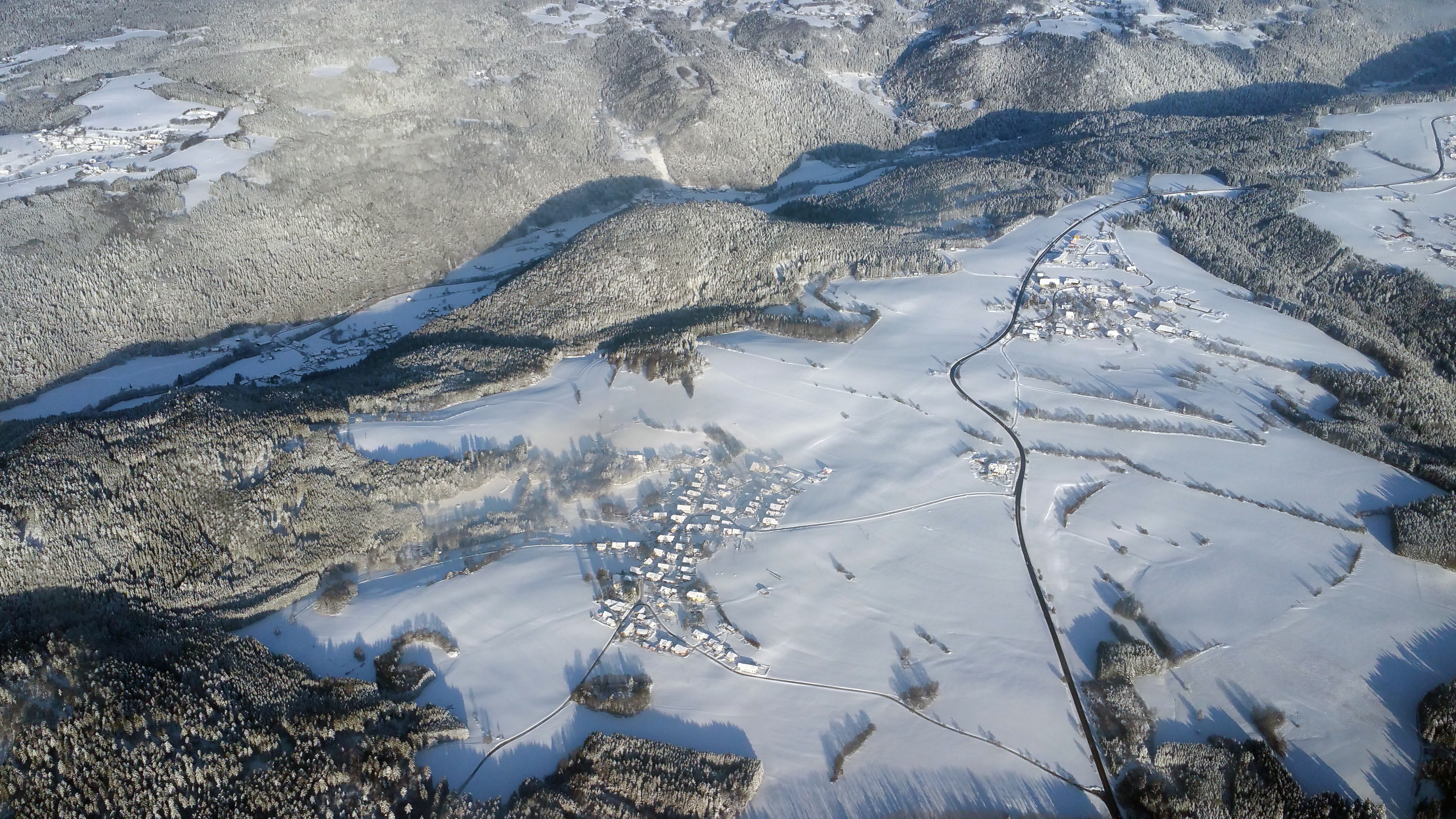 Germany, approach into ZRH across the Black Forest